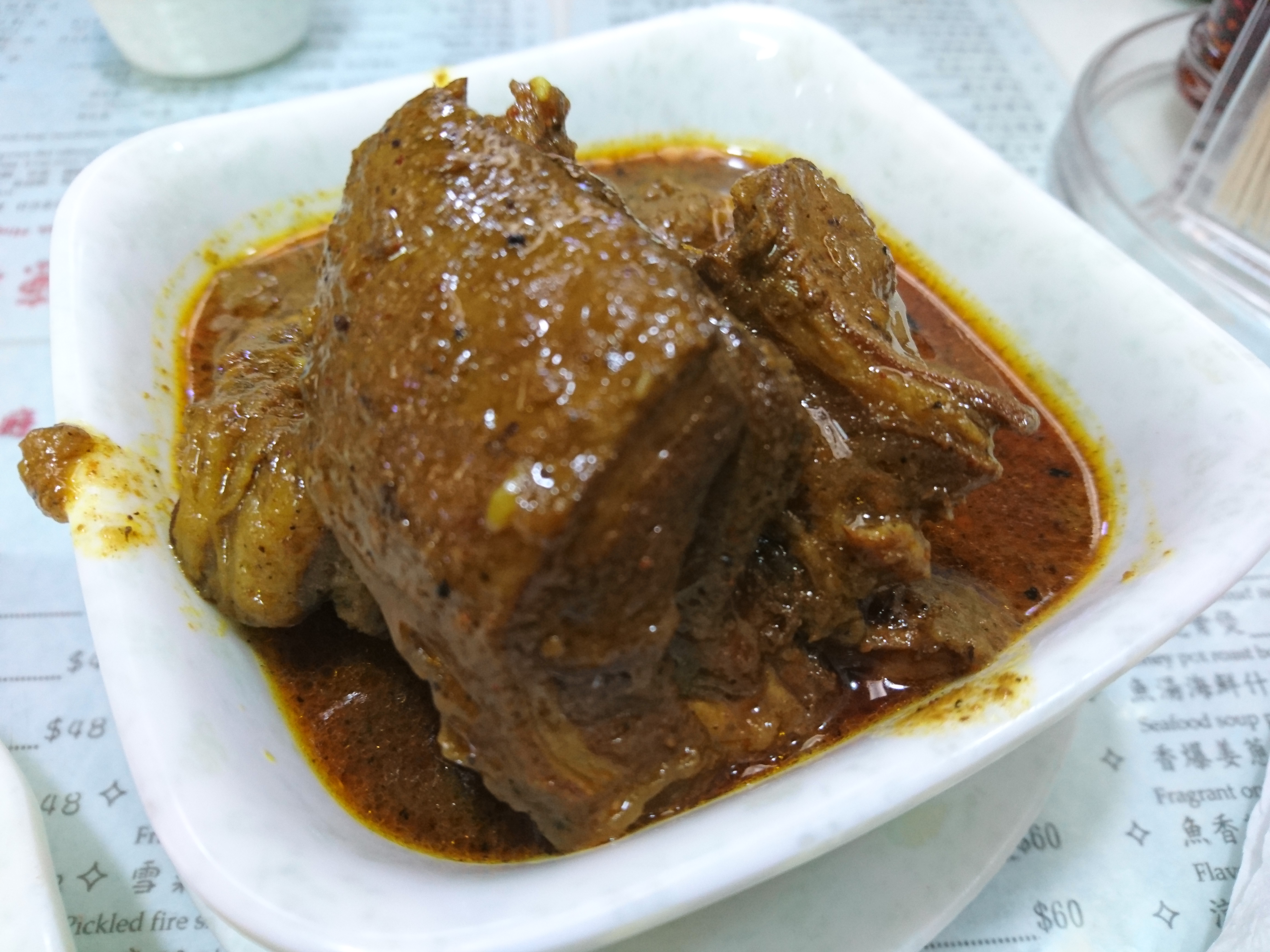 Curry Lamb in Hong Kong